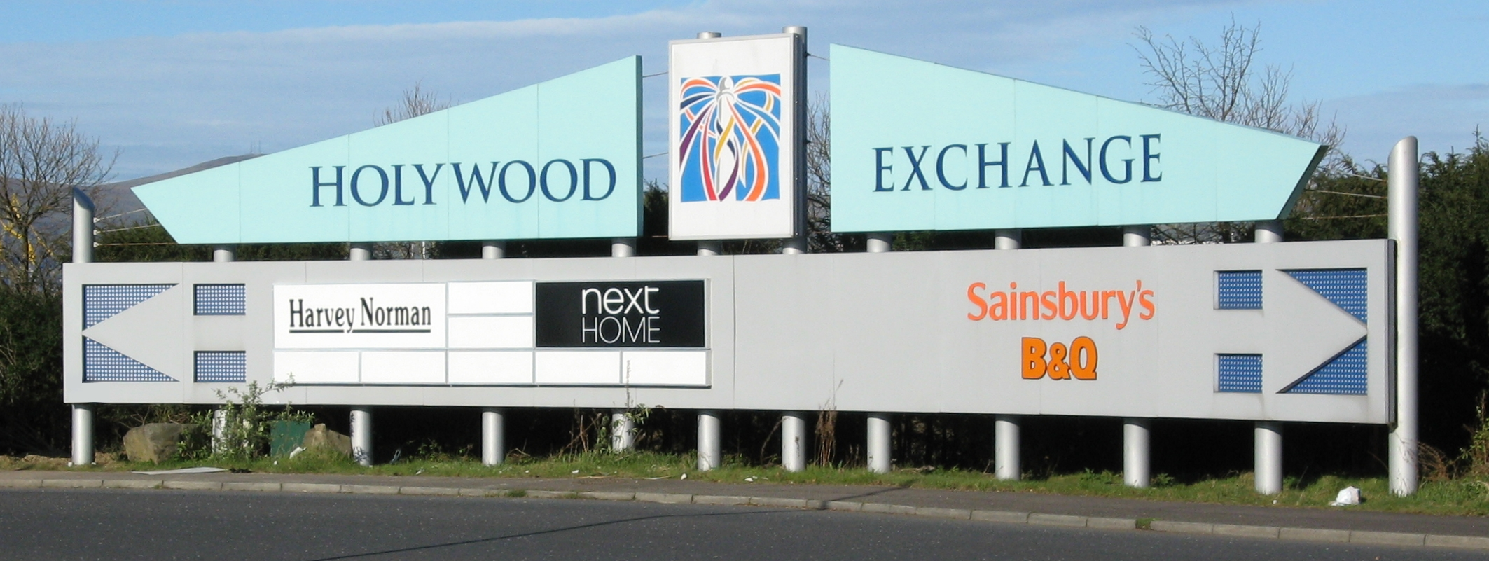 Road sign for Holywood Exchange Shopping Centre showing the stores open at Holywood Exchange as of March 2009 - except the one that attacts shoppers from all over Ireland - IKEA.